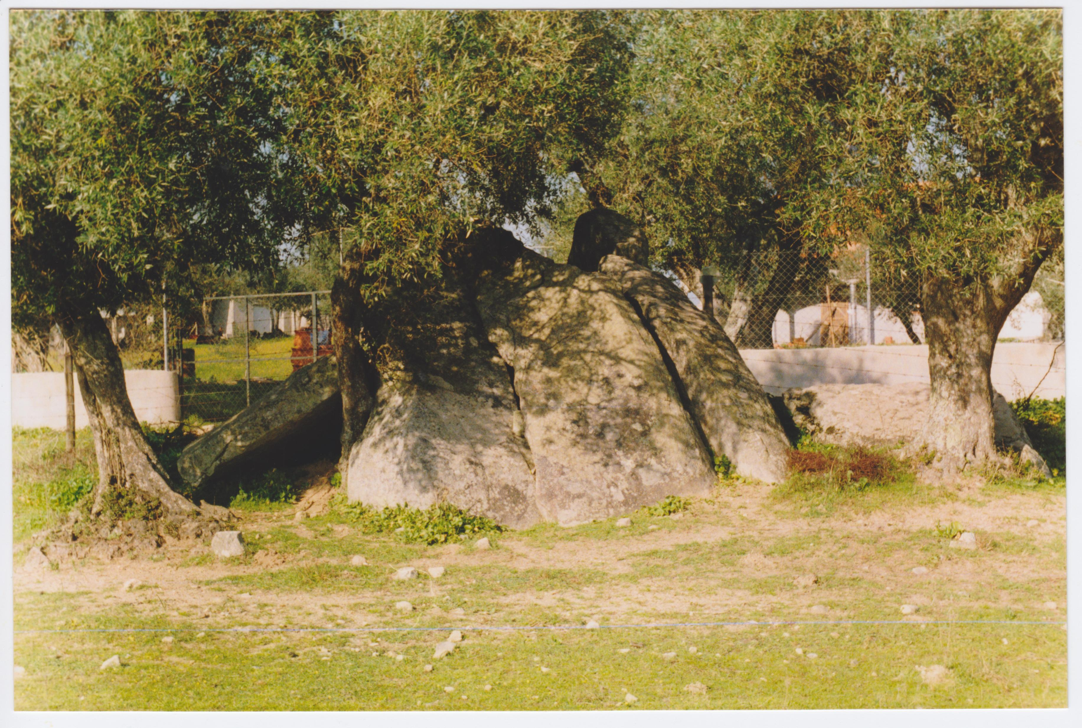 Dolmen in Aguiar, Viana do Alentejo, Evora, Portugal, 17-02-2001